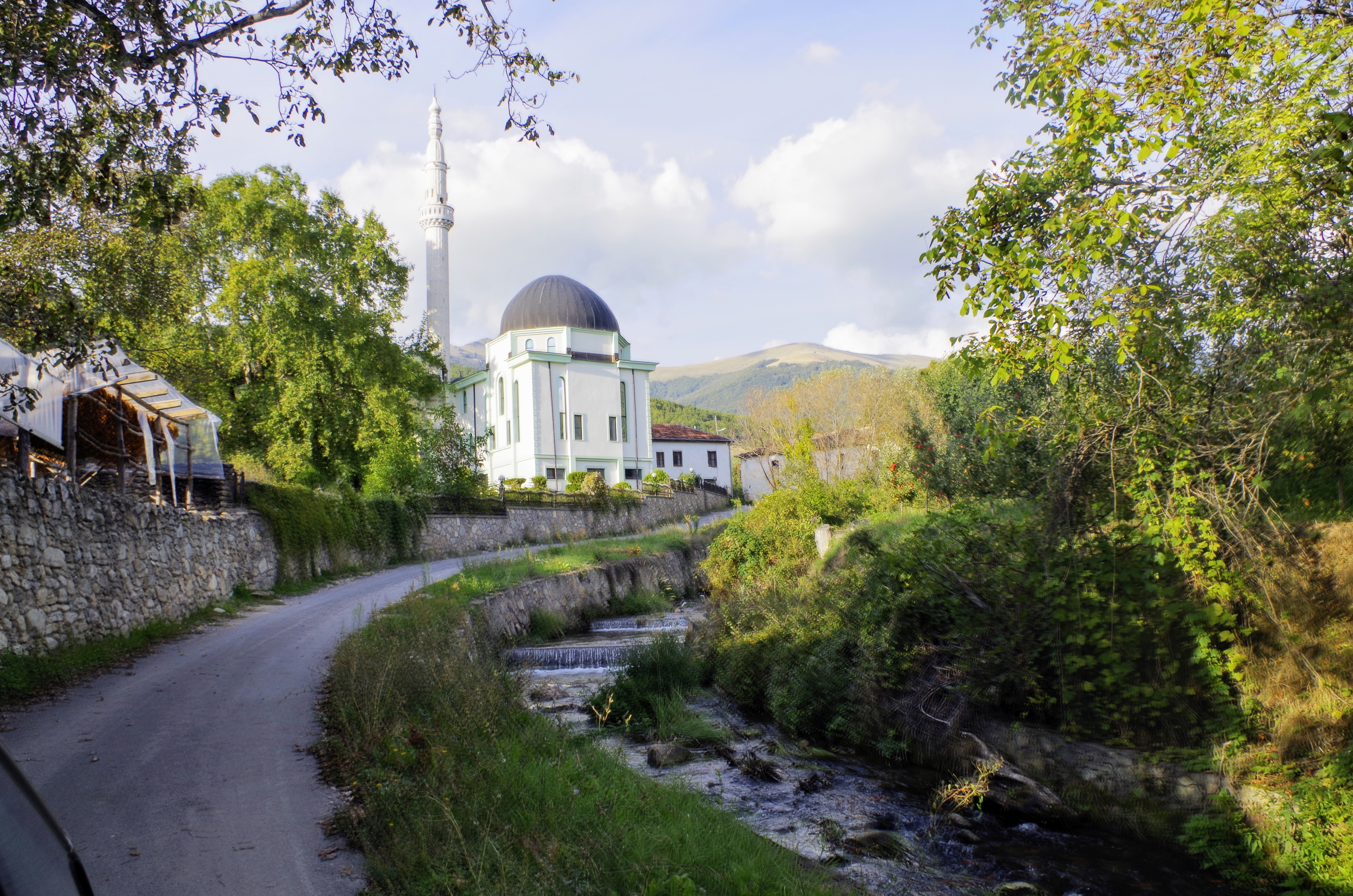 View of mosque in the village Krani